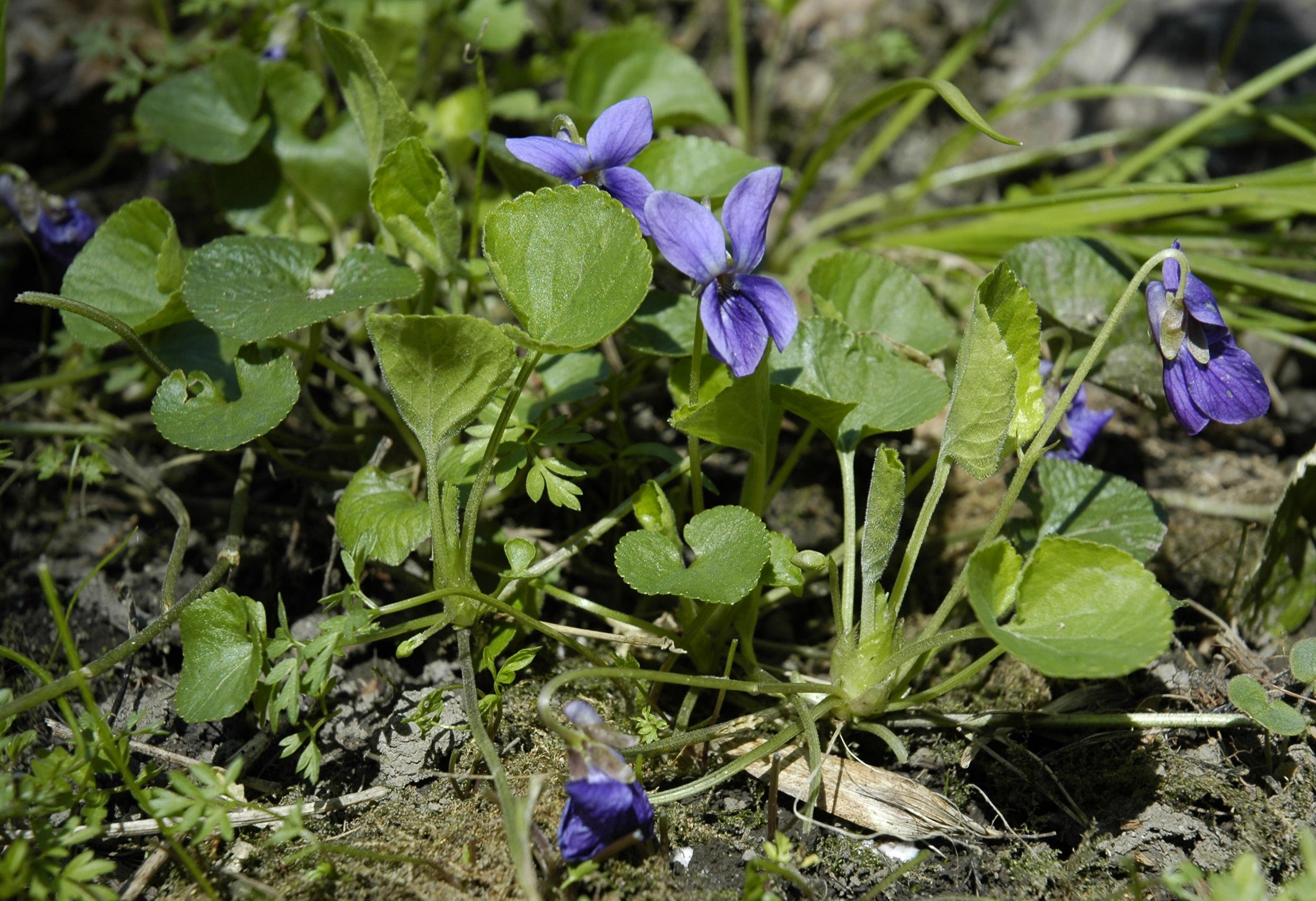 V. odoráta, whole plant. See especially the stolons leading off, the small leaves on the flower stem and the basal rosette